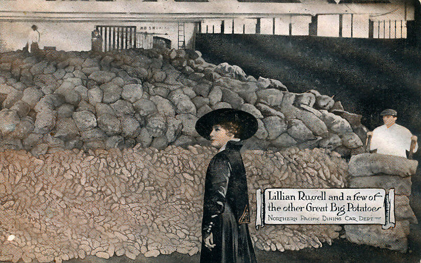 Postcard shows actress Lillian Russell in a paid promotional ad for the Northern Pacific Railway. Russell is depicted against a worker with many sacks of potatoes which would be used for the railway's dining cars. Someone else who apparently intended to send the card and whose trip seemed to be not as happy, wrote "This is Bunk" on it.